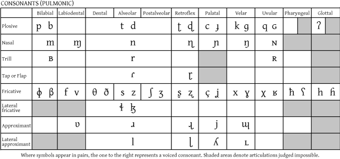 redrawn IPA chart, pulmonic consonants